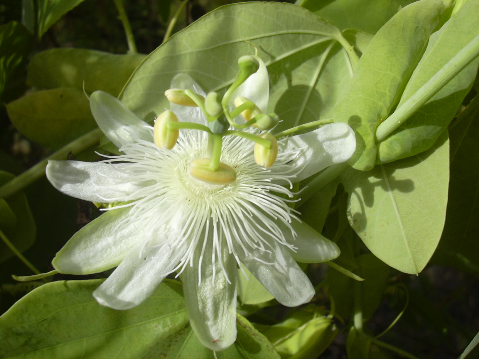 Passiflora subpeltata (flower). Location: Maui, Kula